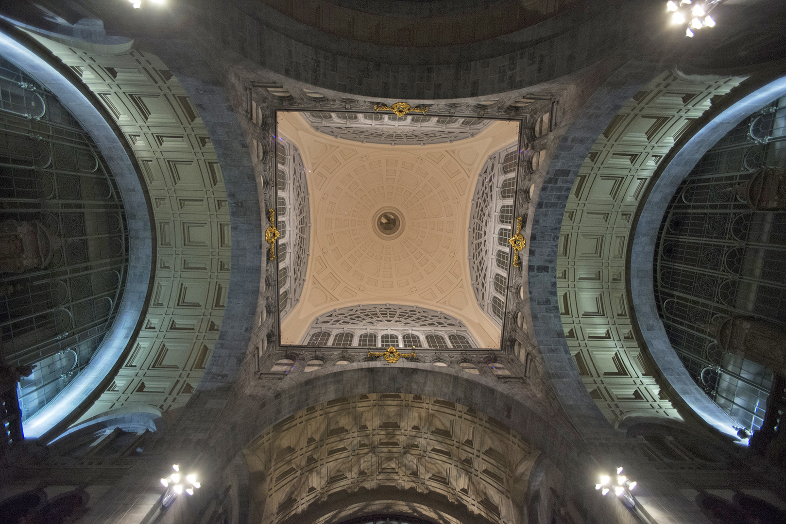 Antwerp's Central Station